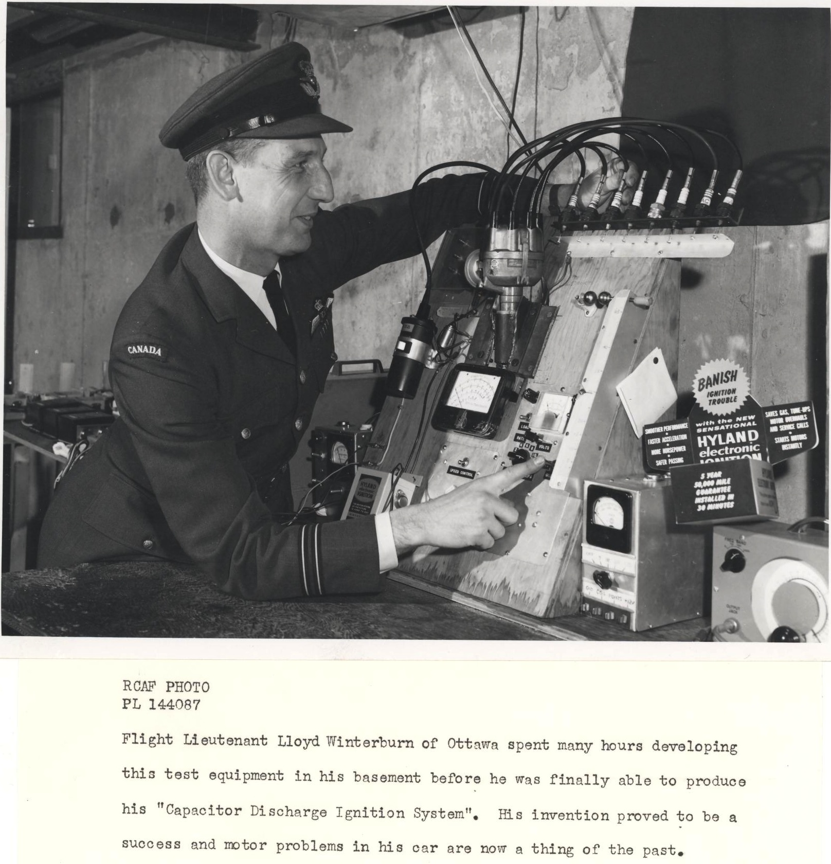 Flight Lieutenant F.L. Winterburn in his basement at Ottawa Ontario demonstating the first commercially produced Capacitor Discharge Ignition system.